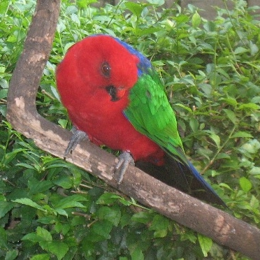 Moluccan King Parrot at Taman Mini Indonesia Indah, Jakarta.